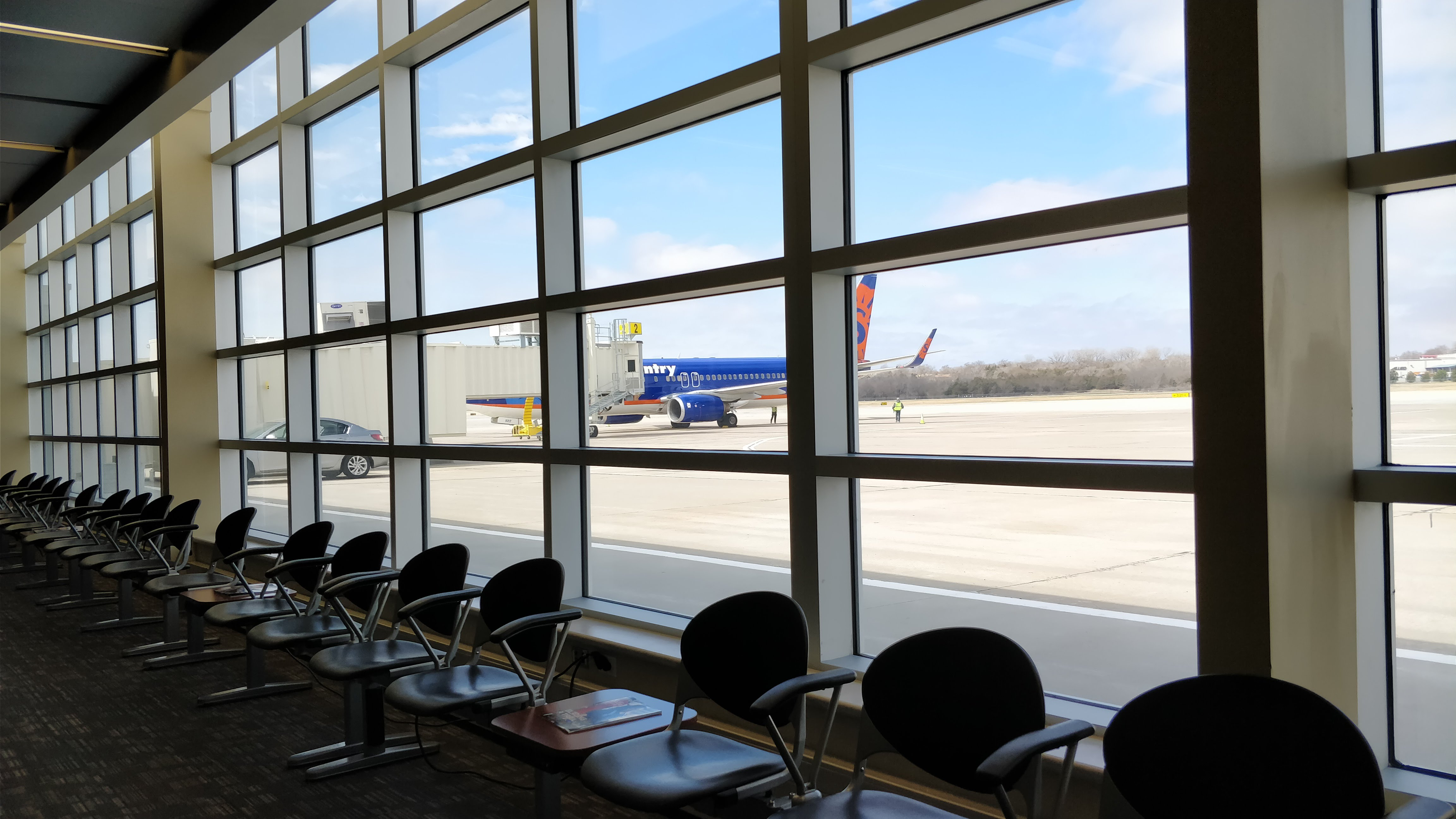 A Sun Country 737-800 gated at the Manhattan Regional Airport Gate 2 for a Big 12 athletics charter.